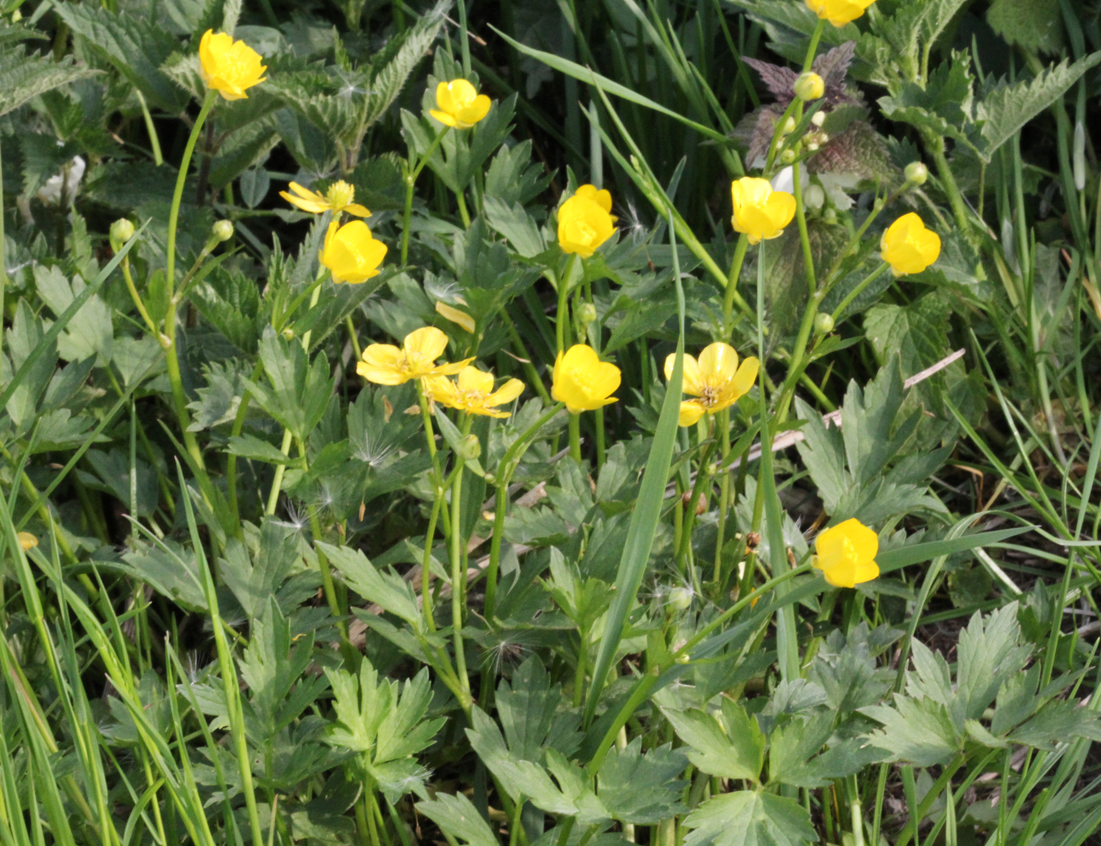 Plant Ranunculus repens "(Ranunculus repens)", central Bohemia, Czech Republic